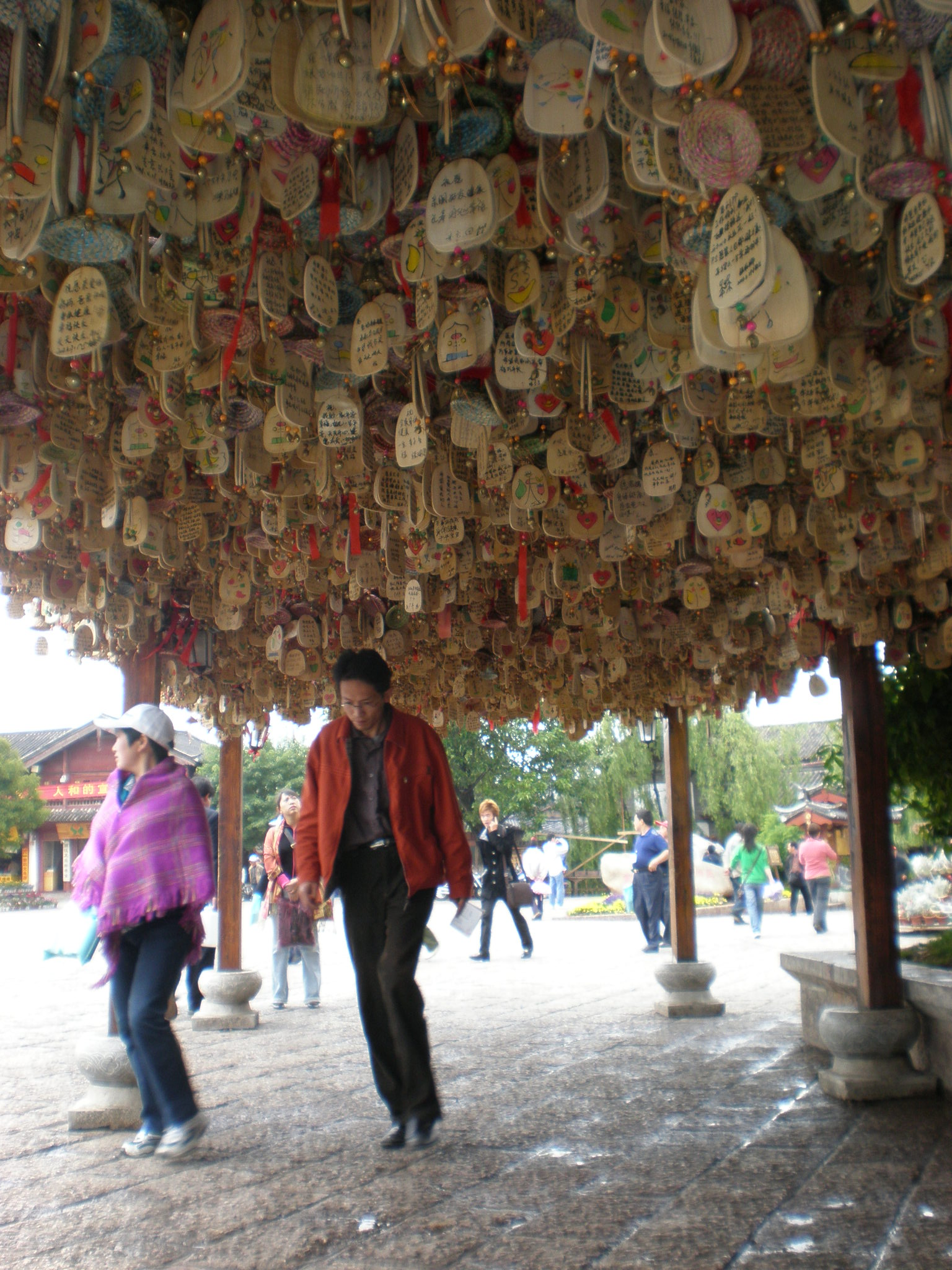 Dongba aspiration windbells in Yuhe Square near the entrance to the Old Town of Lijiang, Yunnan.